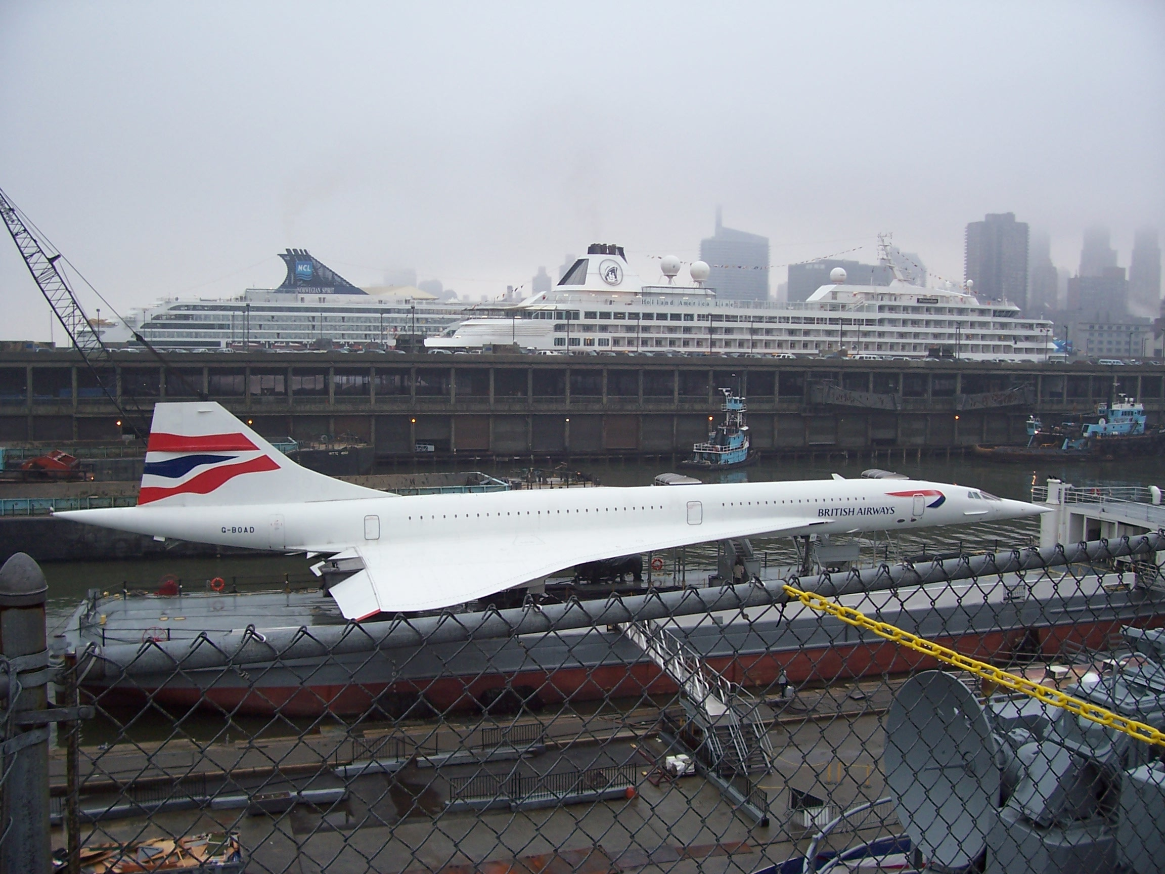 Sea-Air-Space Museum in New York City an Concorde in the foreground